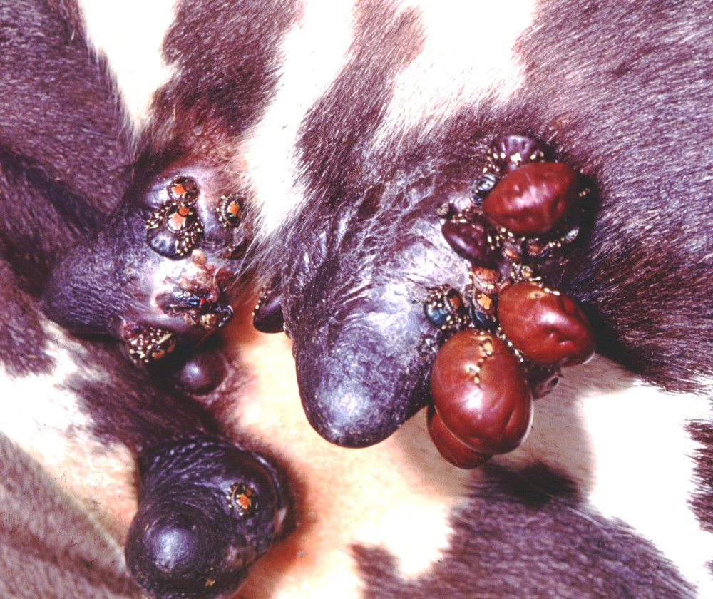 Adult female and male Amblyomma variegatum ticks feeding on the udder of a young cow in Ghana and causing physical damage and obstruction of suckling.